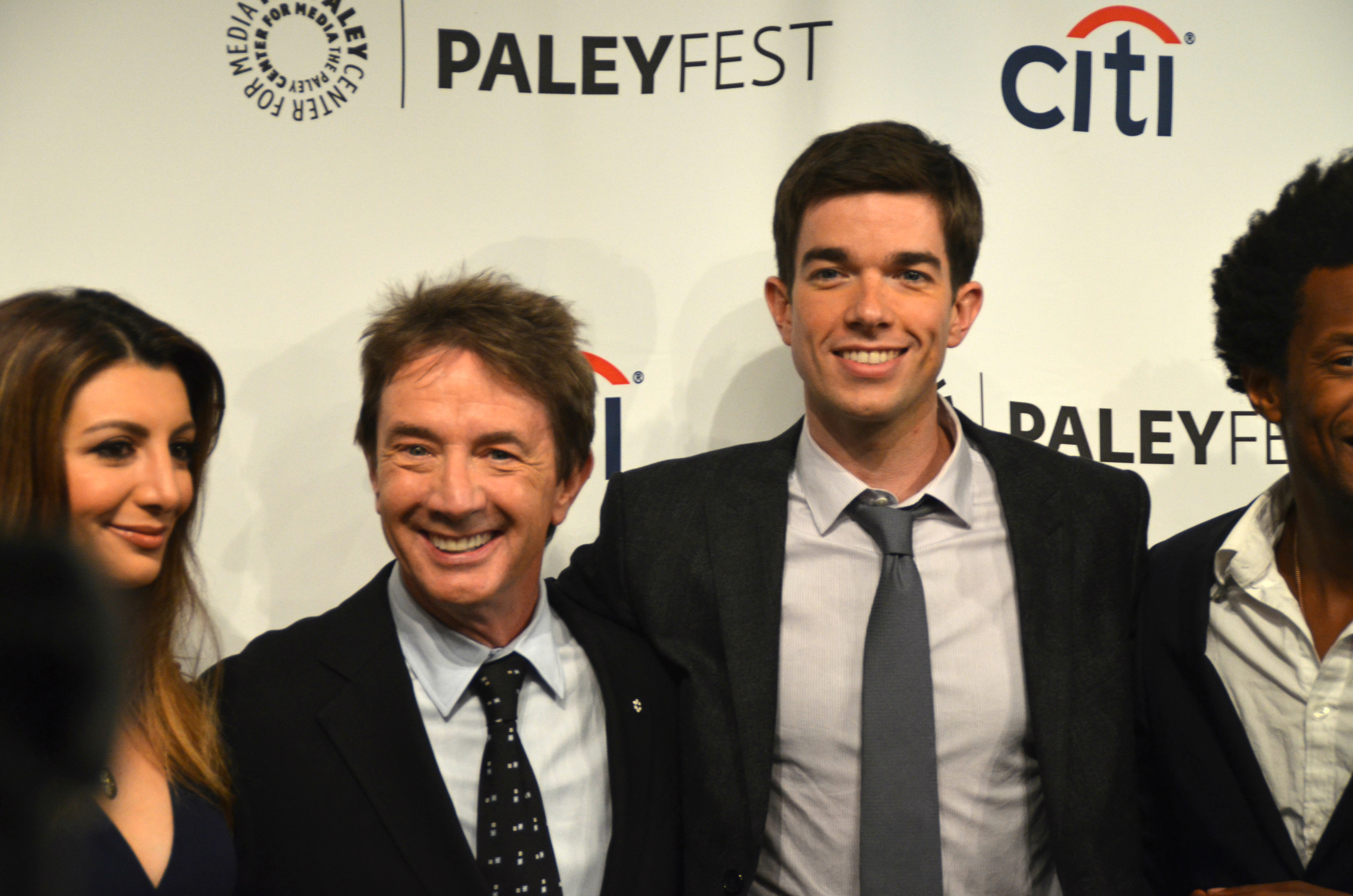 Nasim Pedrad, Martin Short, John Mulaney at the The Fox Preview for Mulaney & Red Band Society event at PaleyFest Fall TV Preview